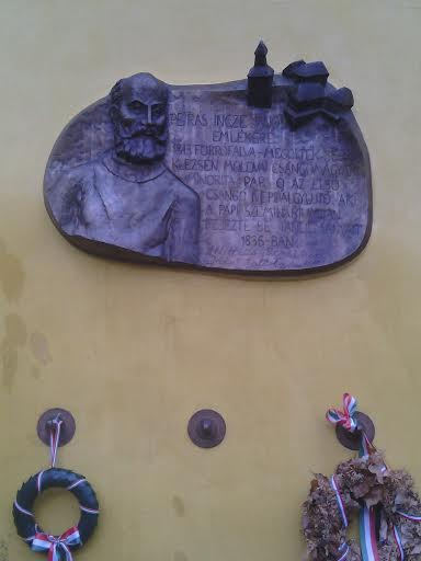 János Petrás Ince martyr hungarian priest